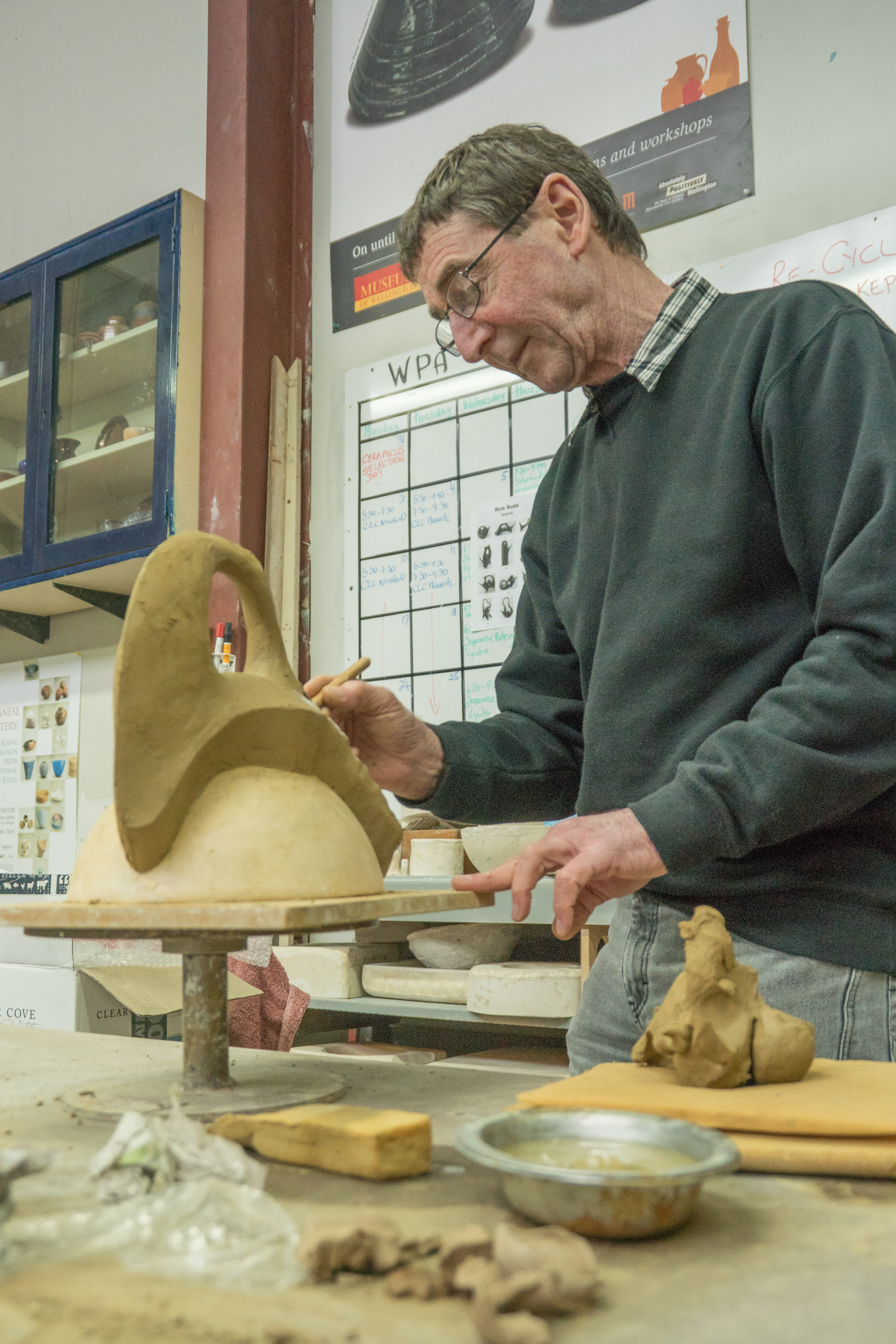 Rick Rudd during a workshop at Wellington Potters Association